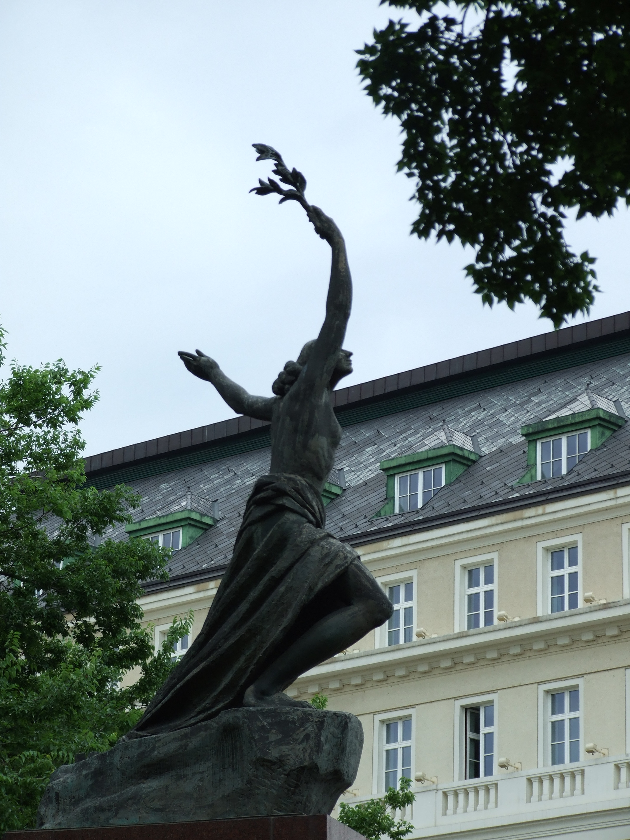 Soviet army memorial in Bratislava city center, SKhelp